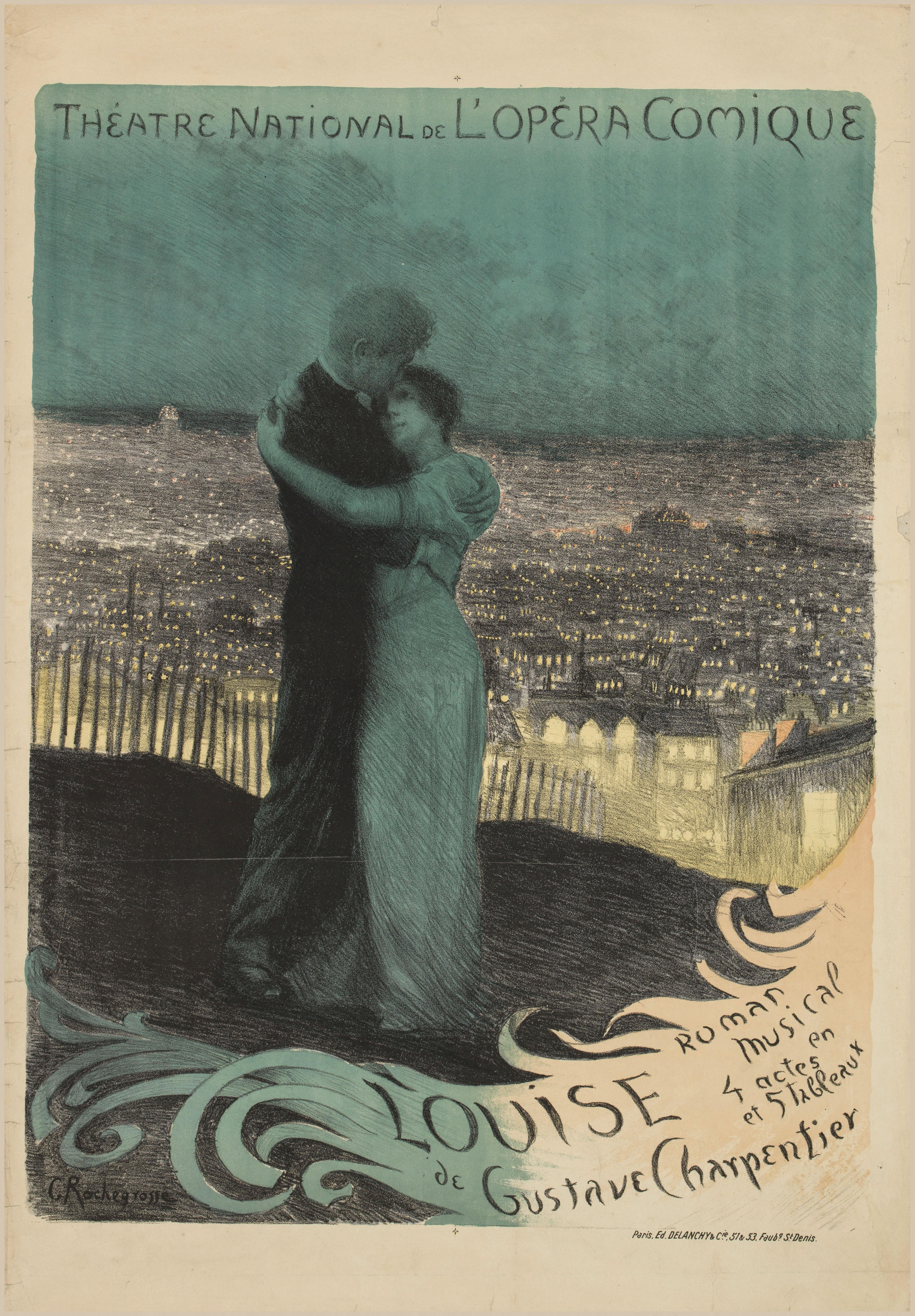 Poster published for the world premiere of Louise (February 2, 1900)